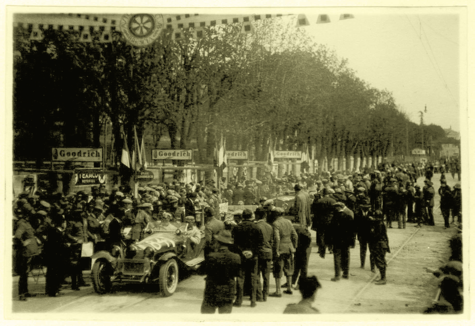 The winner Tazio Nuvolari and co-driver Battista Guidotti waiting to start at IV Mille Miglia in Brescia on 13 Aprile 1930 in an Alfa Romeo 6C 1750 Gran Sport entry #84.[1]